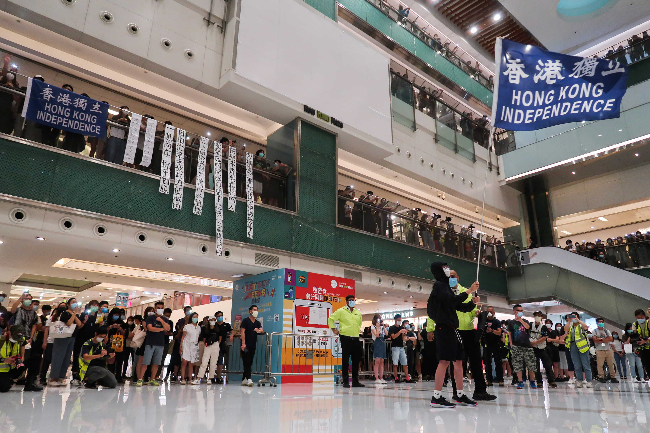 District council members with warning letter from New Town Plaza